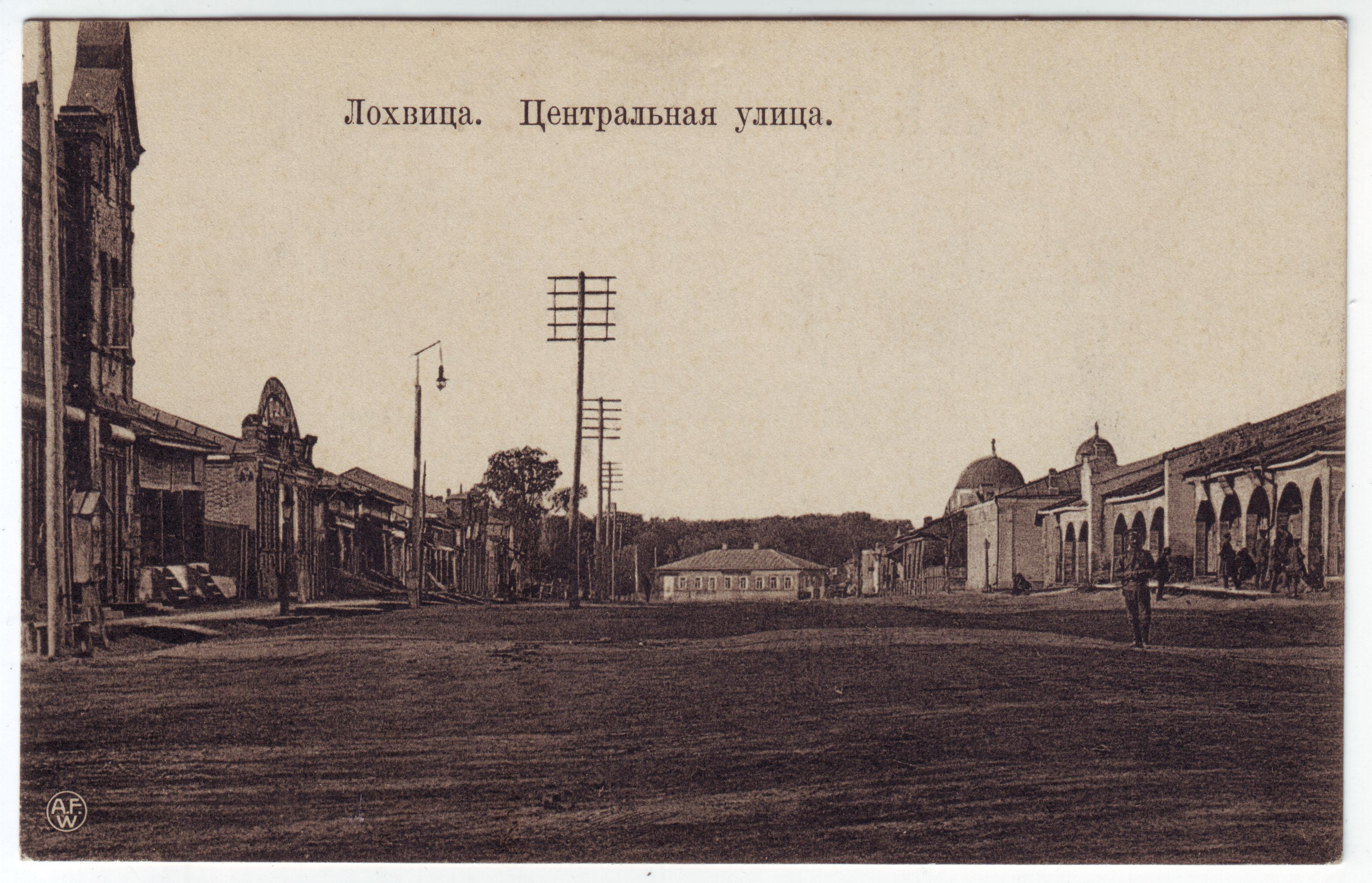 Лохвица Центральный бульвар (фото нач. ХХ века)